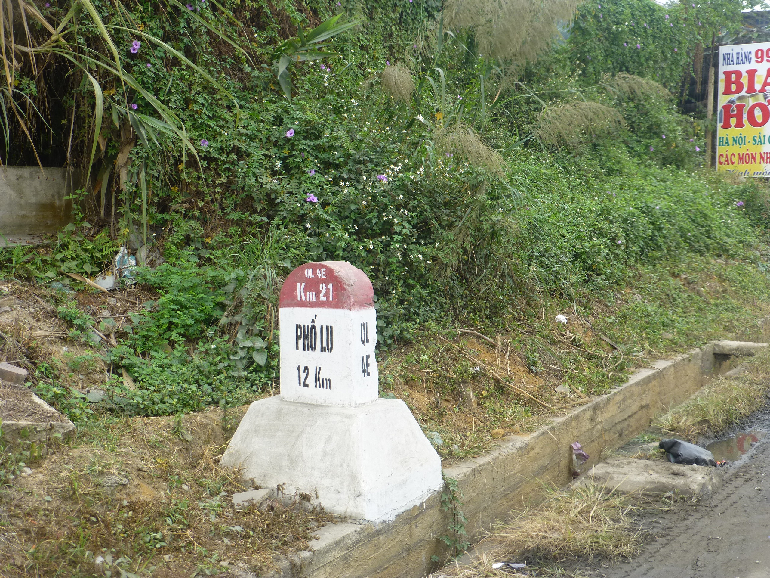 Along Vietnam National Route 4E (QL4E) in Bao Thang District, between Gia Phu and Pho Lu. The railway branch Pho Lu–Xuan Giao runs fairly close to the highway in many areas